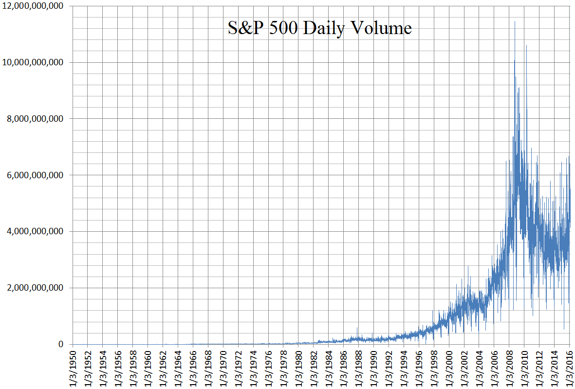 A daily volume chart of the S&P 500 from January 3rd, 1950 to February 19th, 2016